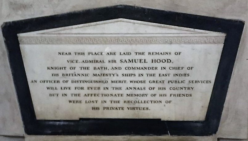 Memorial Sir. Samuel Hood, St. Mary's Cathedral, Madras